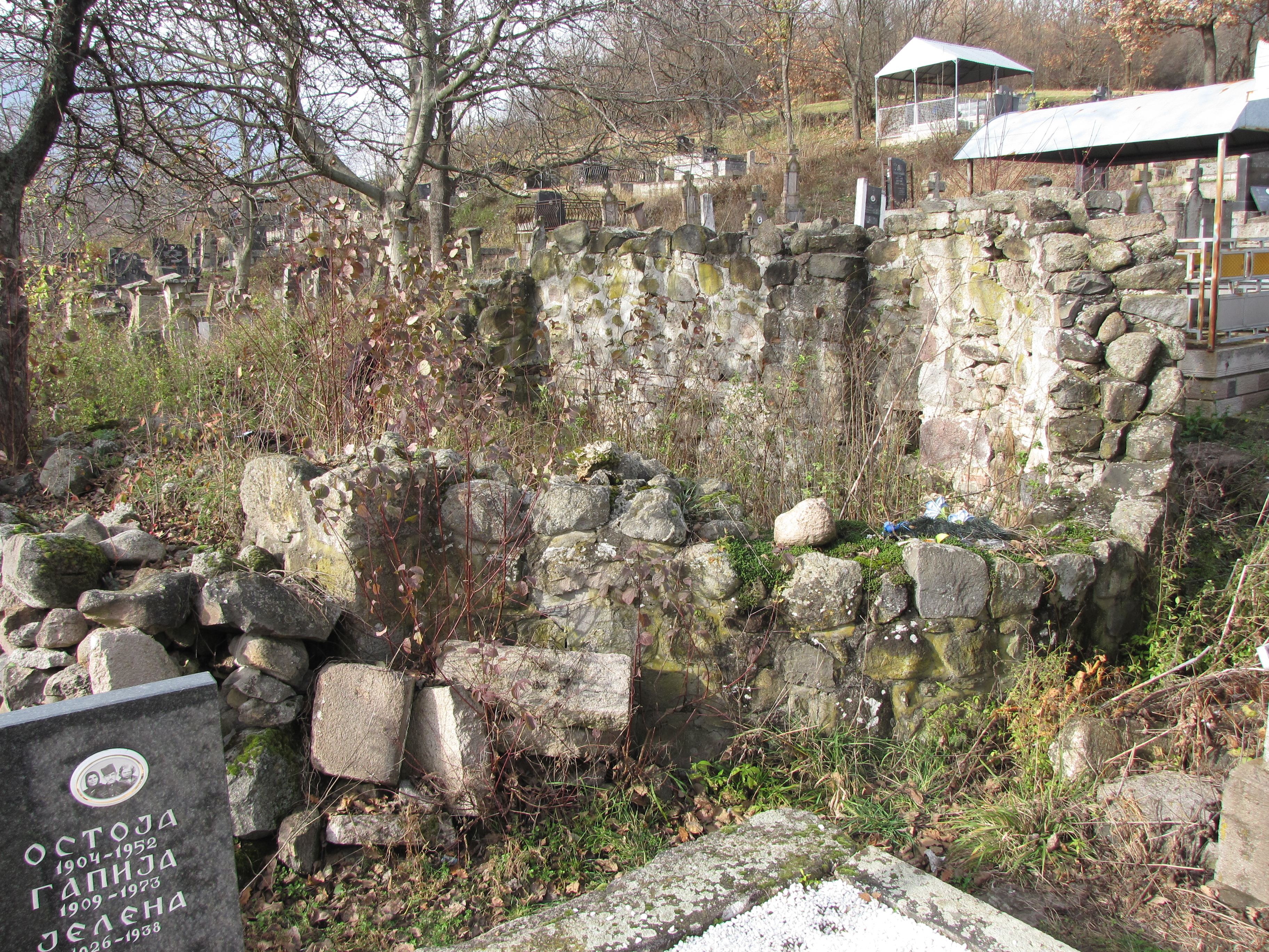 Mrnjina Church in Bečevica